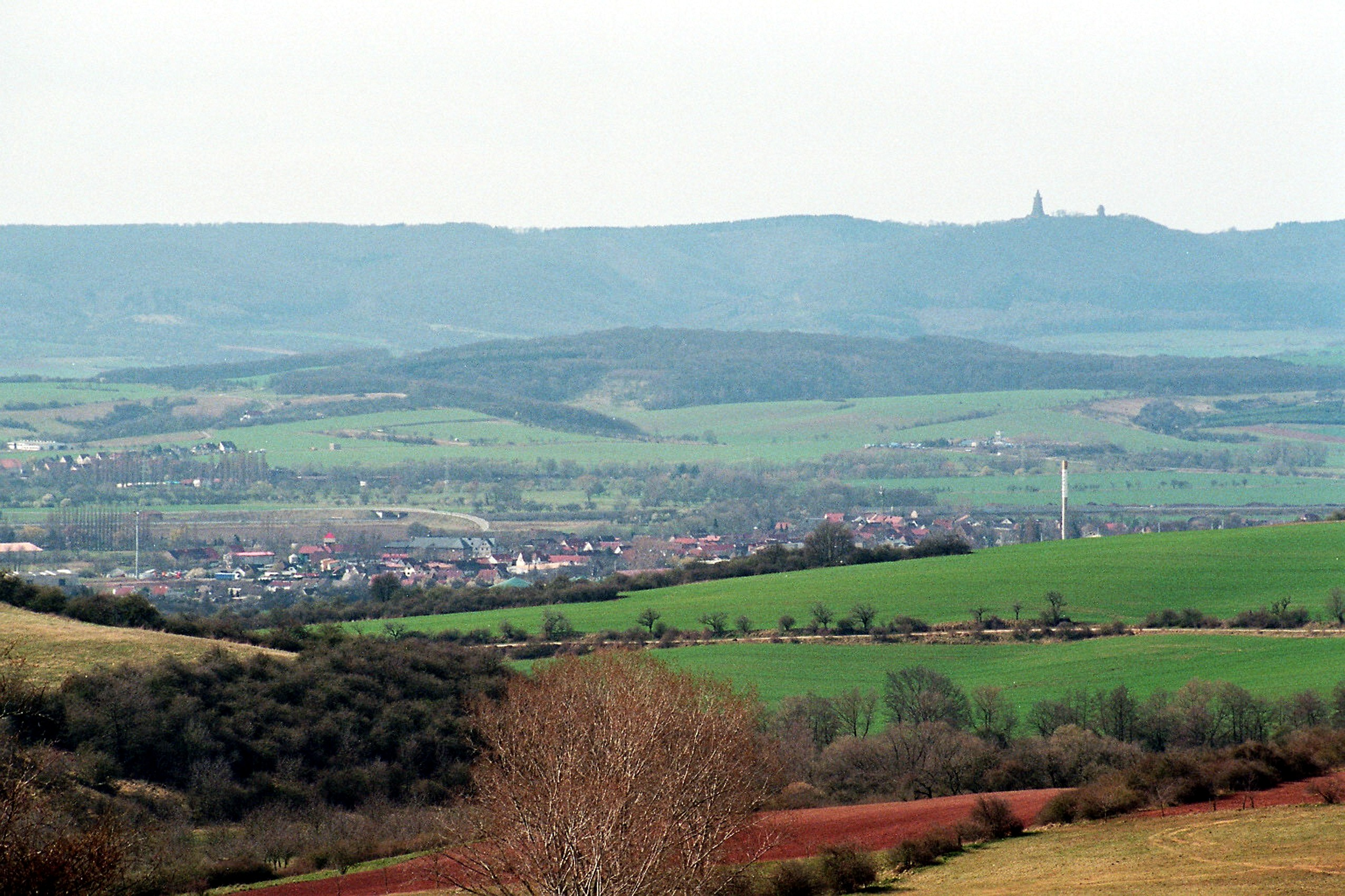 Wallhausen, view to the village